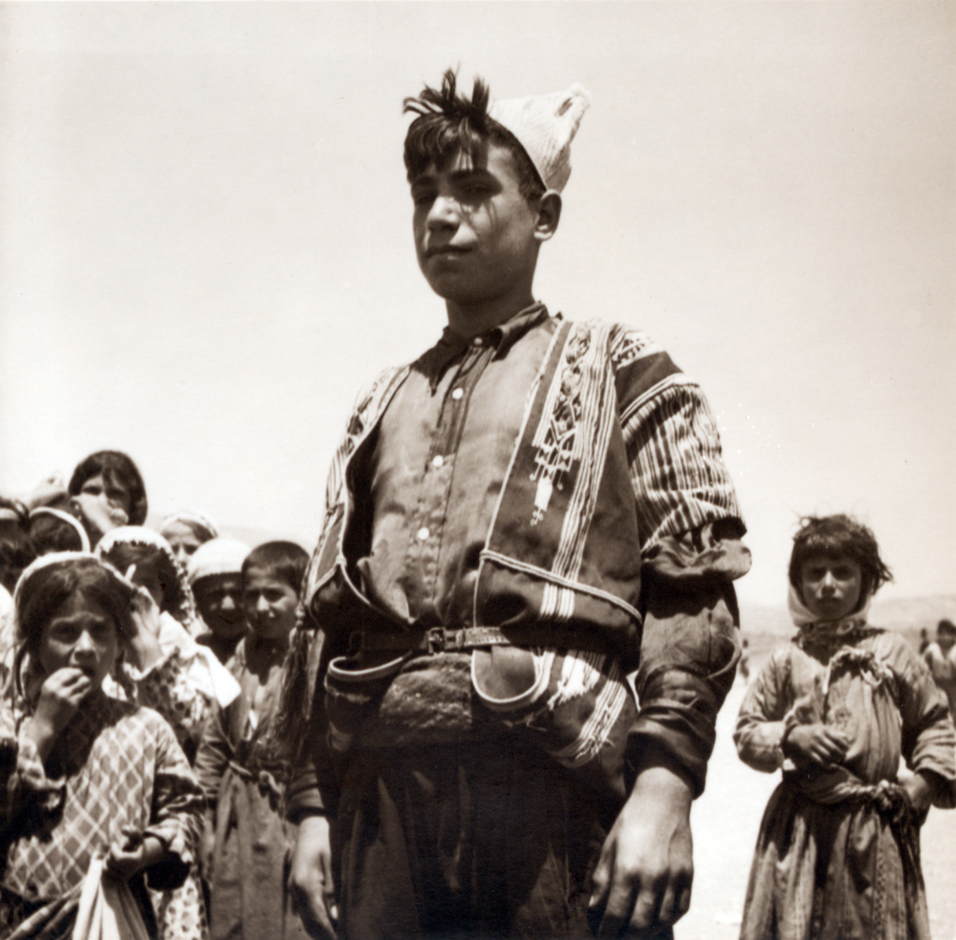 Antioch 14th July celebrations. The Turks march in to stay. Types of Alouites at 14th July religious festivity, when they always picnic at their shrines. LC-DIG-ppmsca-17416-00065 (digital file from original on page 36, no. 2006)